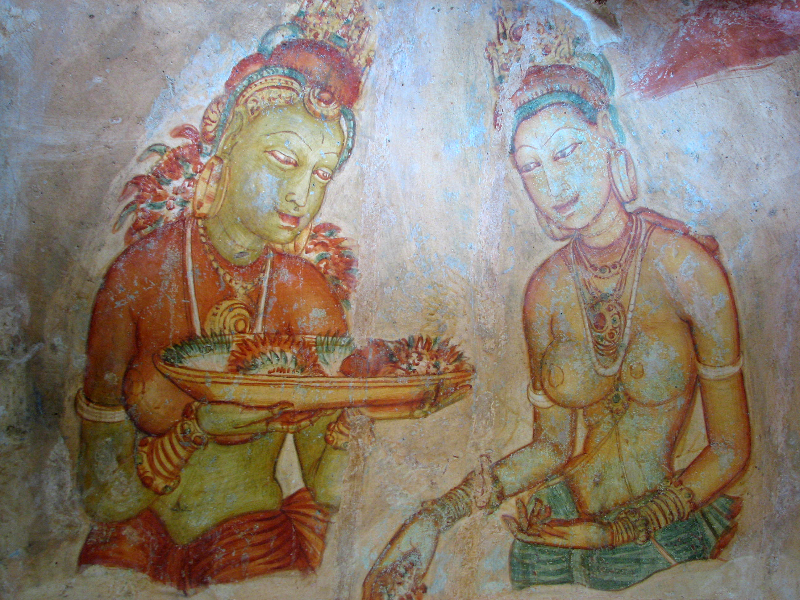 Sigiriya ladies, Sri Lanka